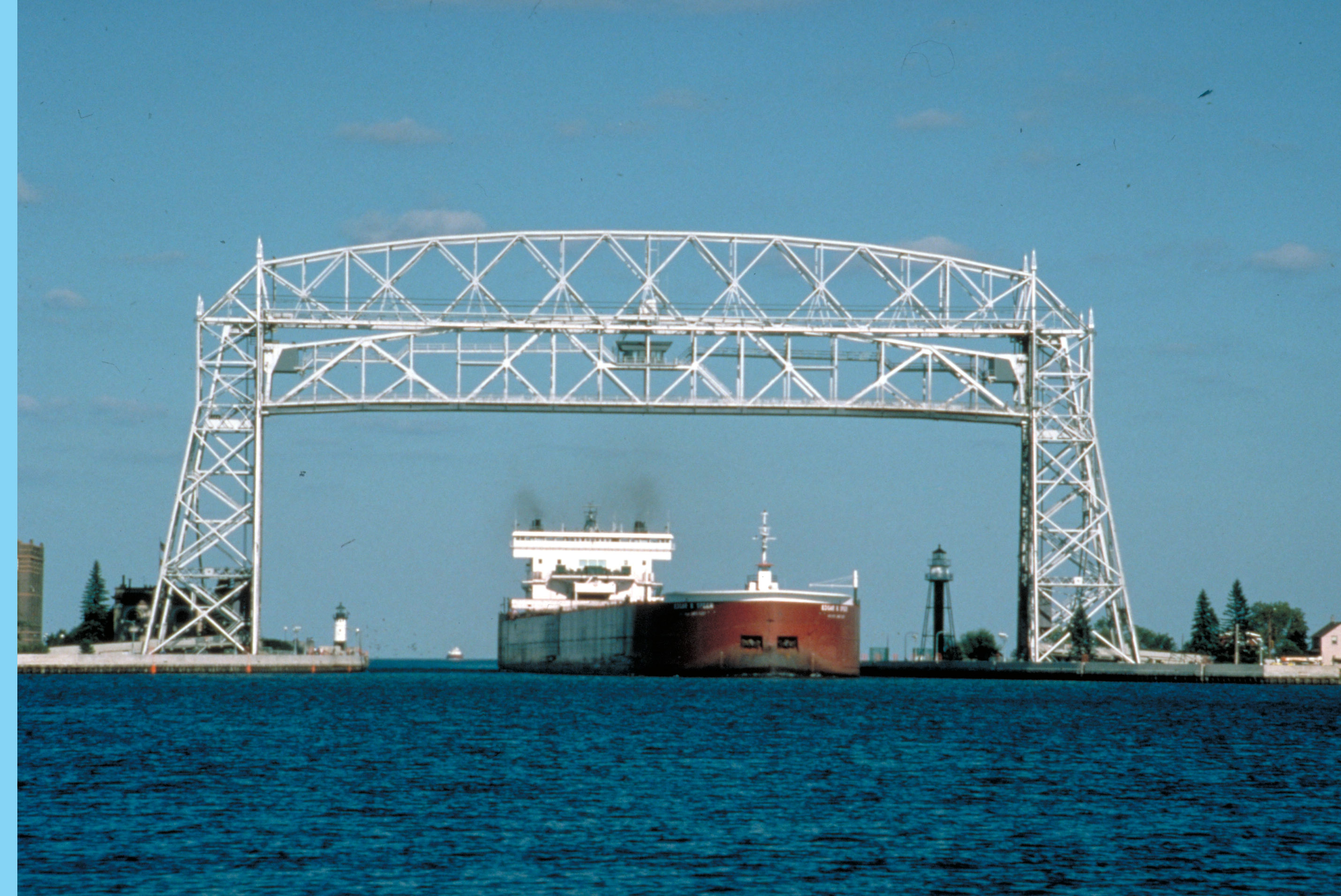 A lake freighter, the Edgar B. Speer, passing under the Duluth Aerial Lift Bridge at the Duluth-Superior harbor in Duluth, Minnesota.